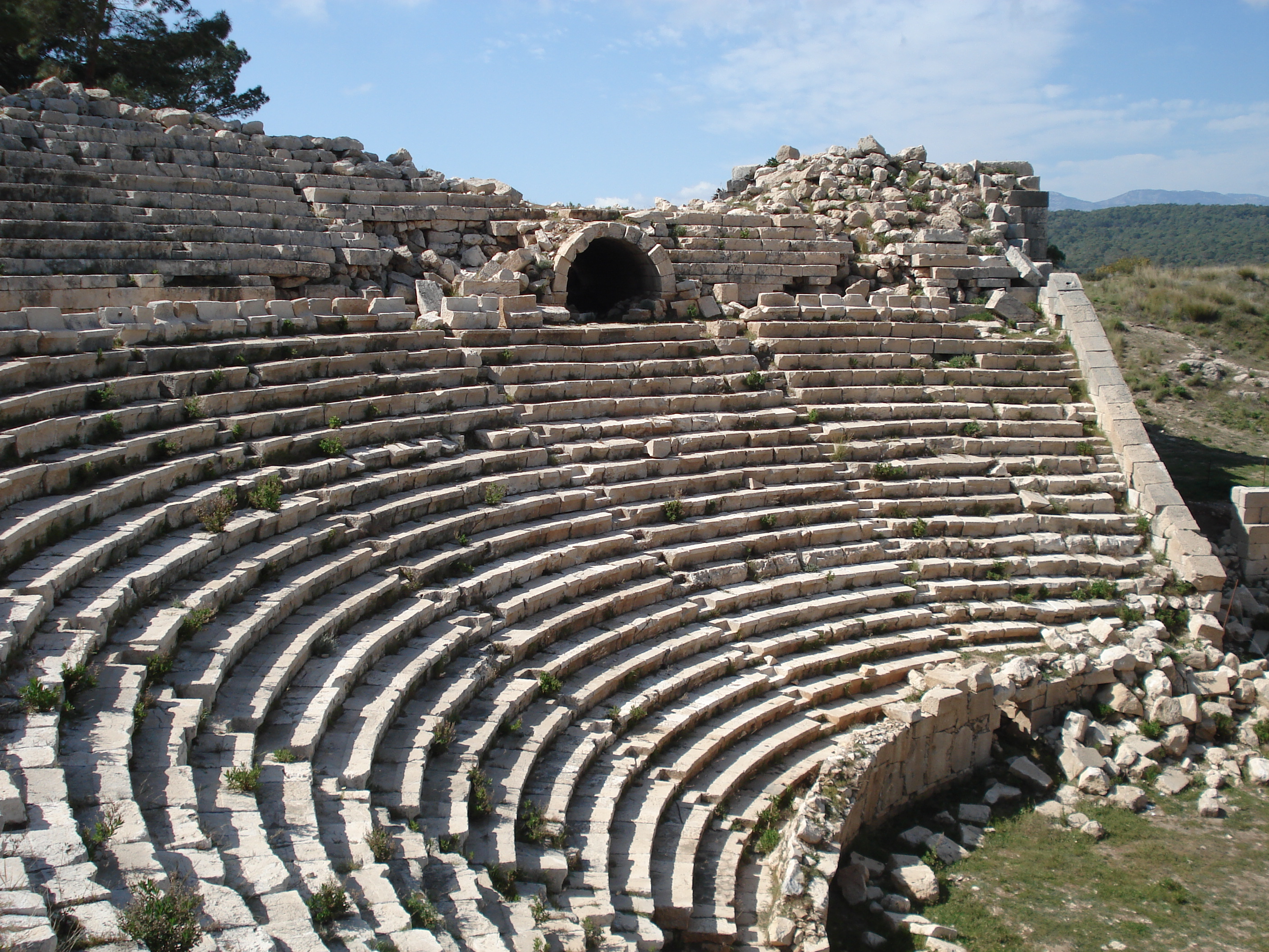 Patara, Roman Theater